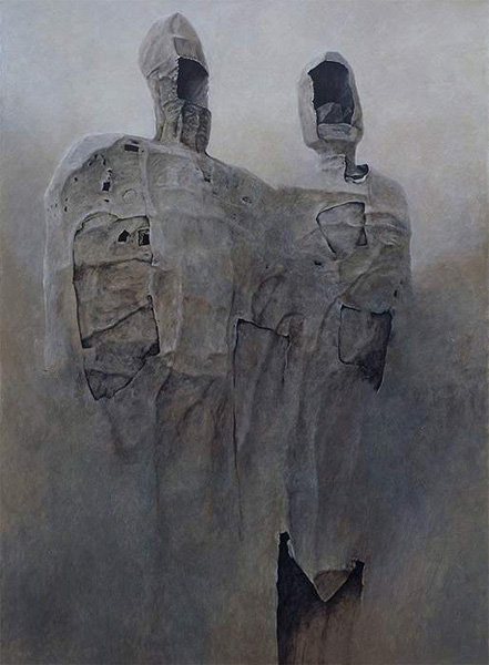 Painting entitled: Król i królowa (King and Queen), year 1993, 98 x 132 cm oil on beaverboard